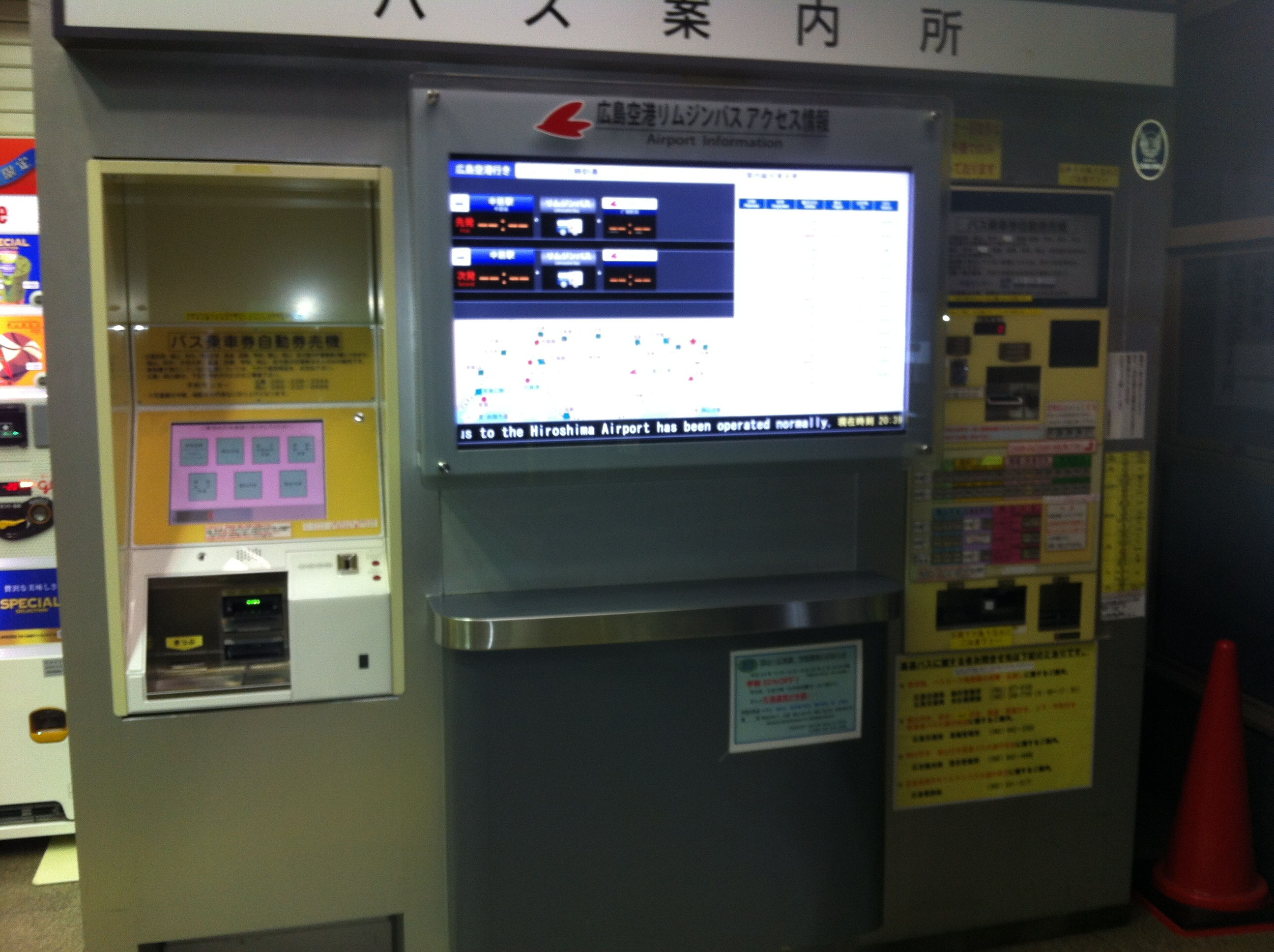 Bus infomation of Nakasuji bus terminal (Astramline Nakasuji station)